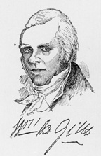 Portrait of William Branch Giles